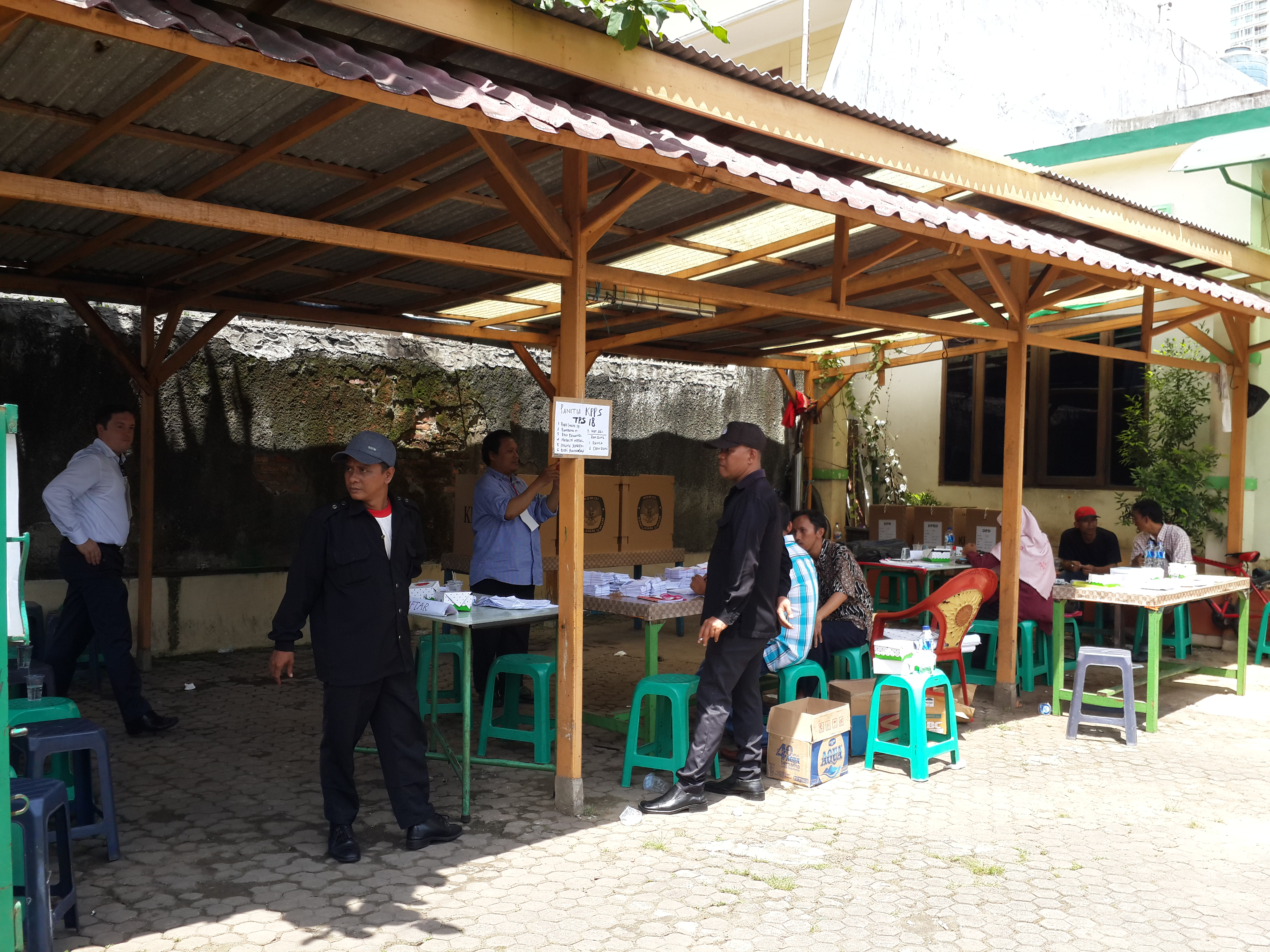 A polling station in Central Jakarta during Parliamentary elections on April 9, 2014